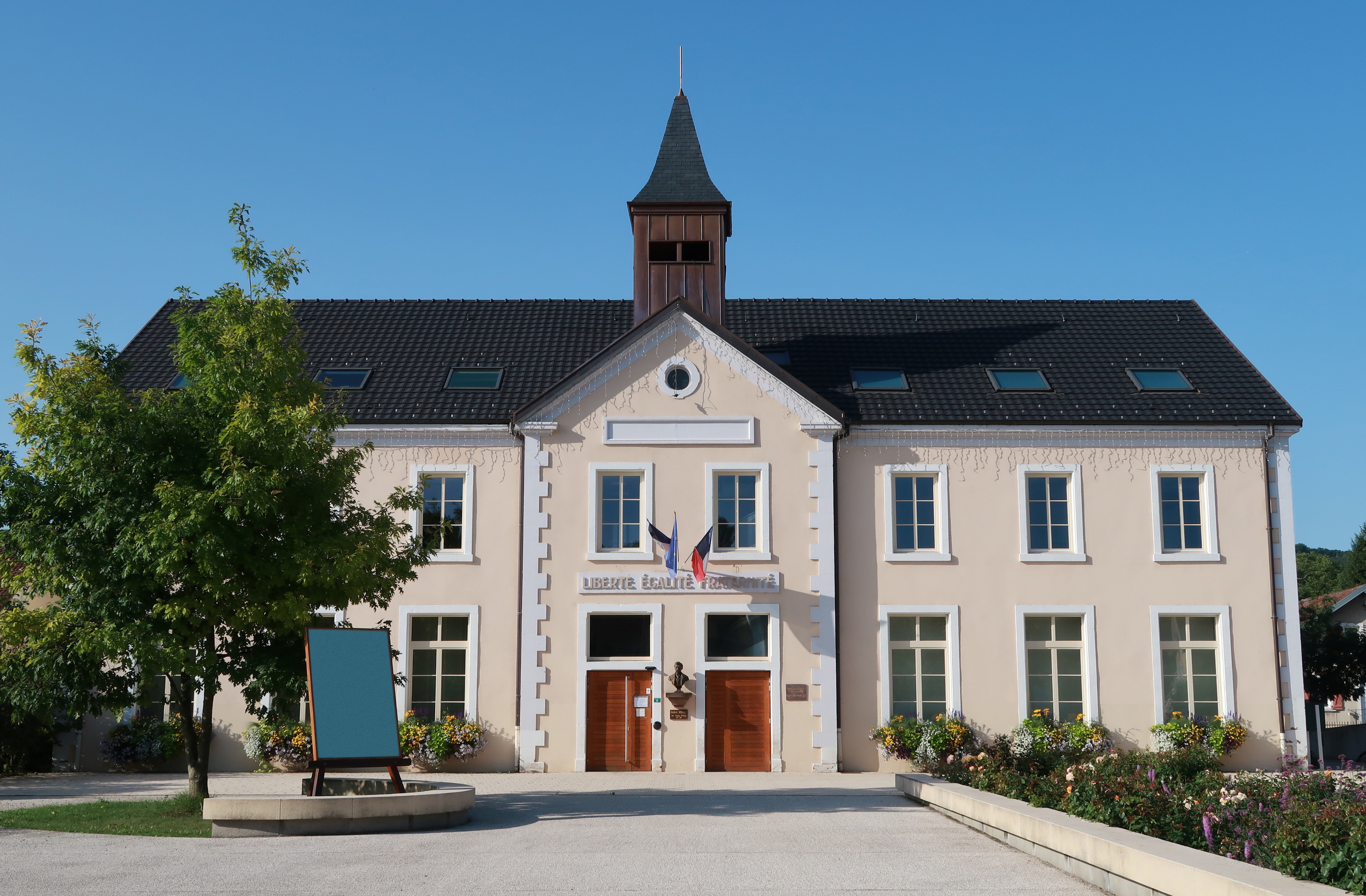 Town hall of Mandeure, Doubs, France.